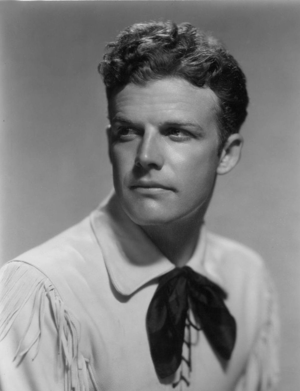 Rex Bell (George Francis Beldam) studio photograph from Battling with Buffalo Bill.